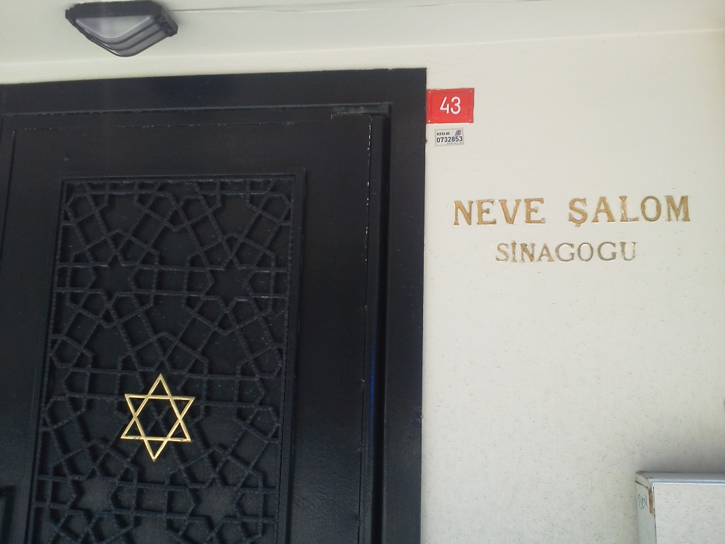 Neve Shalom synagogue in Istanbul, Turkey, door